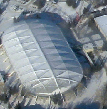 Aerial view of the Olympic Oval at the University of Calgary grounds, Calgary, Alberta, Canada